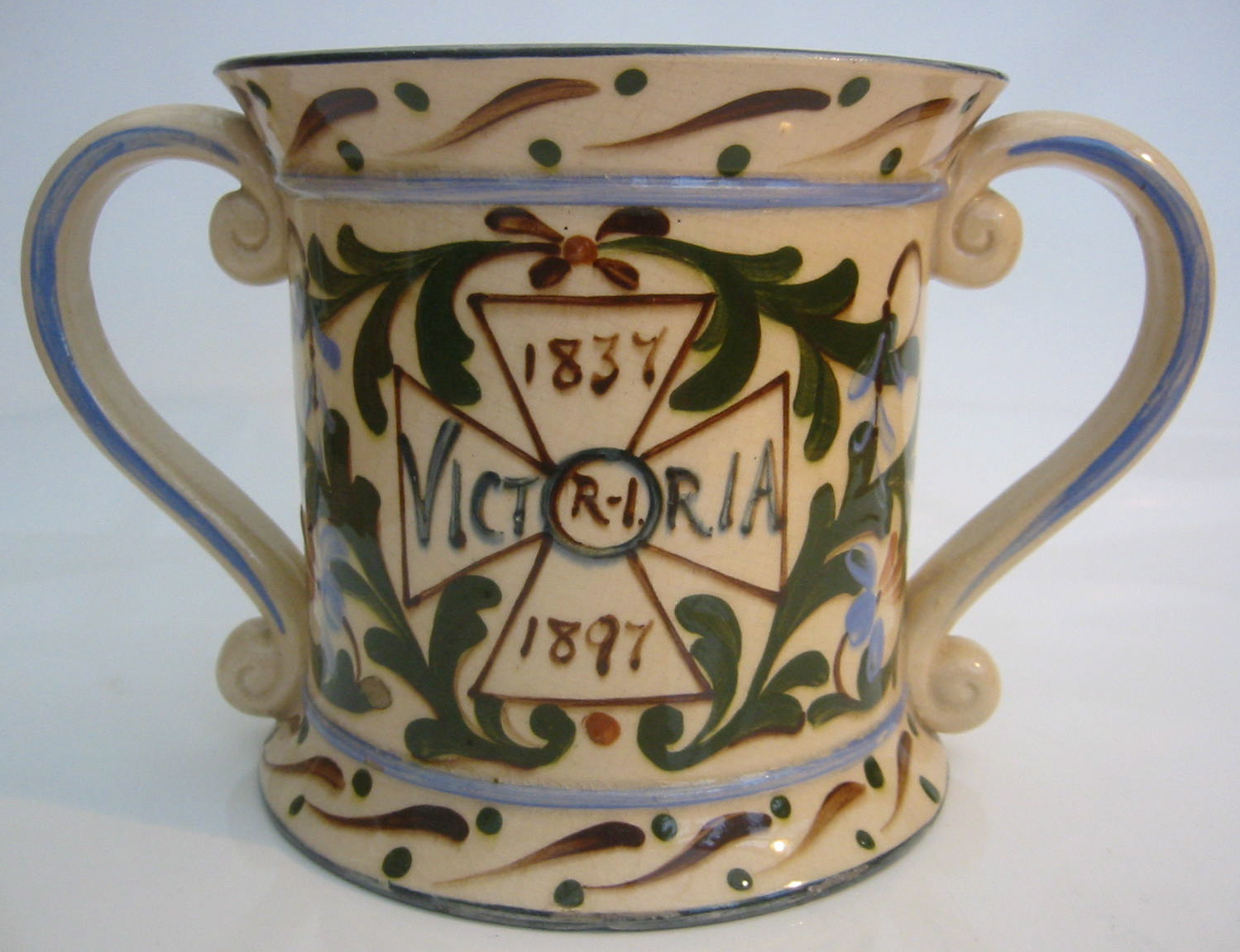 Salopian Art Pottery, Benthall, Shropshire, England. Slip painted loving cup produced for Queen Victoria's Golden Jubilee, 1897. © John Malam 2007